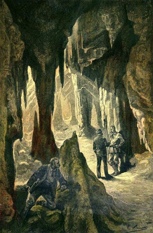 An illustration from Jules Verne's novel "Facing the Flag" (or "For the Flag").